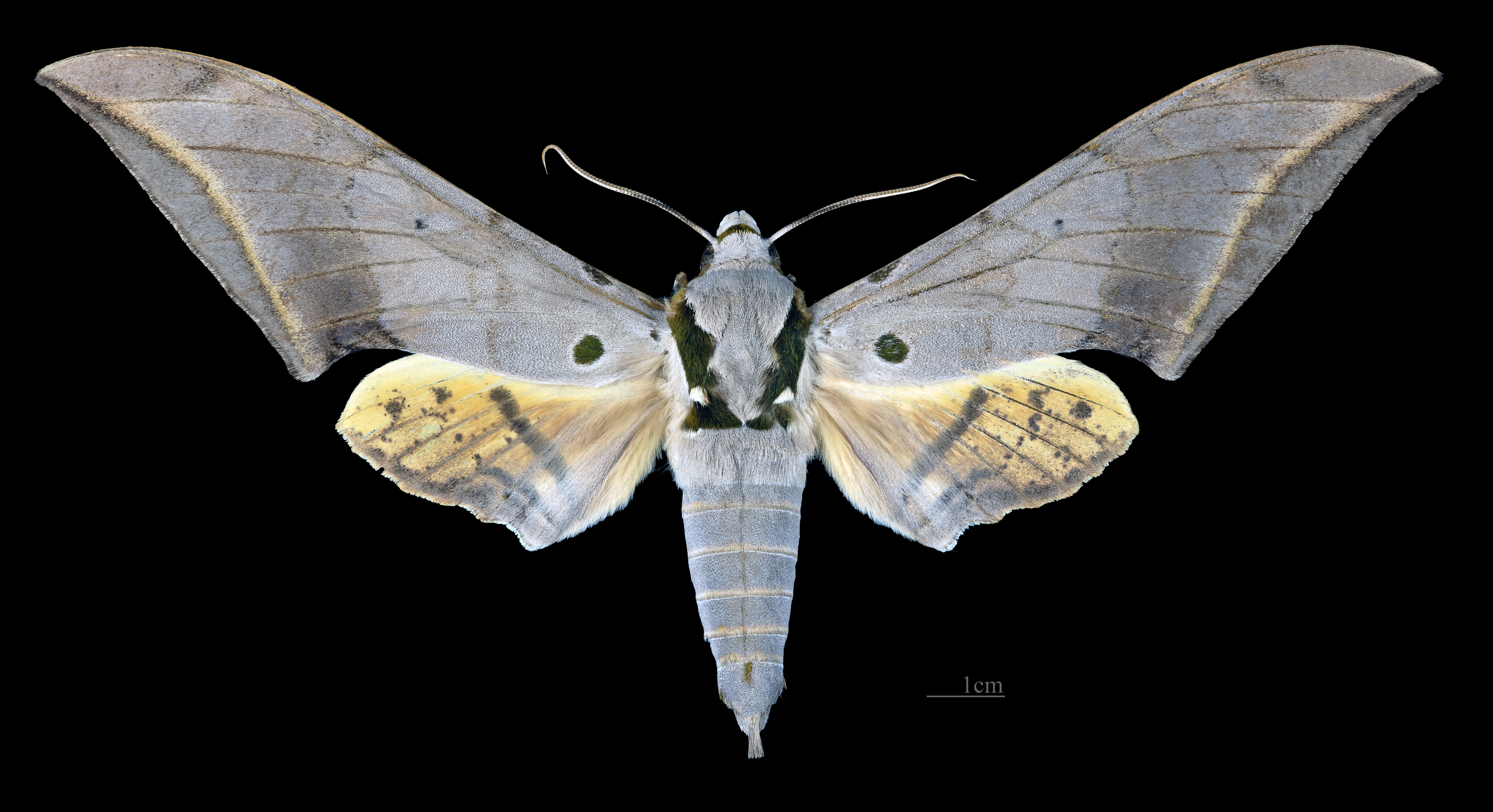 Ambulyx placida - Dorsal side Collection of the Mathematician Laurent Schwartz